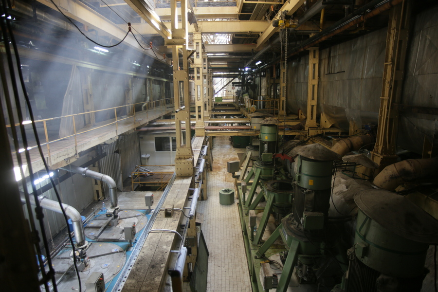 Factory Crvenka Srpski (latinica): Fabrika secera Crvenka